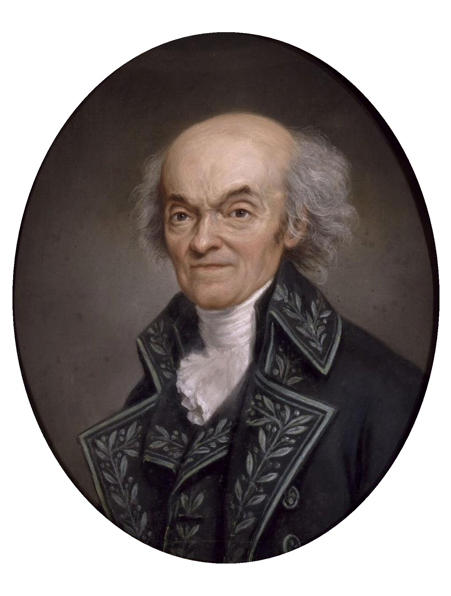 Jérôme Lalande (1732-1807), French astronomer.